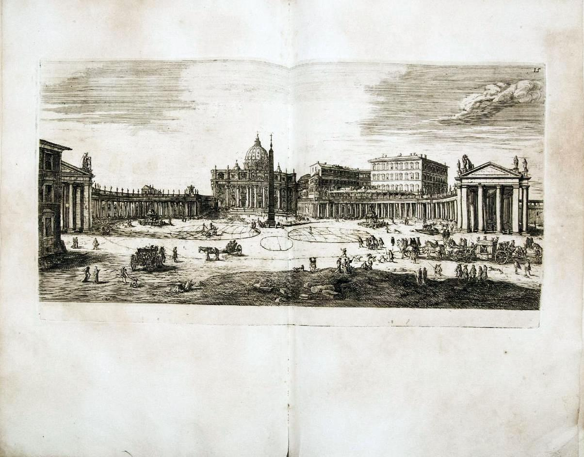 Saint Peter's Square in L’Arte di restituire à Roma la tralasciata Navigatione del suo Tevere. Divisa in tre parti....". Rome, Giacomo Antonio de Lazzari Varese, 1685.